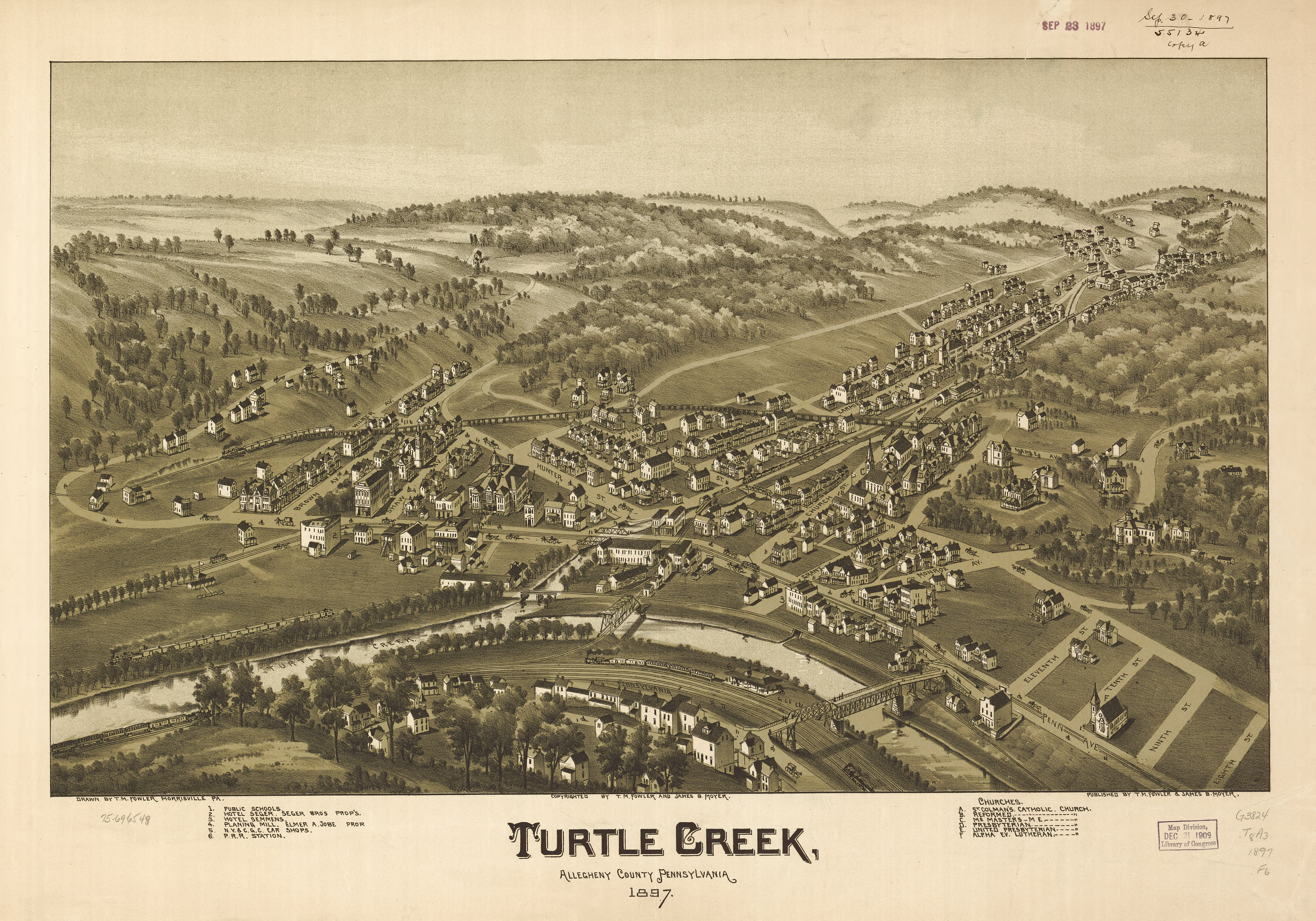 Bird's-eye view of Turtle Creek, Pennsylvania in 1897 by T.M. Fowler. Uploaded from the Library of Congress. Their Metadata follows: Turtle Creek, Allegheny County, Pennsylvania 1897. Drawn by T. M. Fowler. Fowler, T. M. 1842-1922. (Thaddeus Mortimer), CREATED/PUBLISHED Morrisville, Pa., T. M. Fowler & James B. Moyer [1897] NOTES Perspective map not drawn to scale. Bird's-eye-view. Indexed for points of interest. SUBJECTS Turtle Creek (Pa.)--Aerial views. United States--Pennsylvania--Turtle Creek. RELATED NAMES Moyer, James B. MEDIUM col. map 34 x 56 cm. CALL NUMBER G3824.T8A3 1897 .F6 REPOSITORY Library of Congress Geography and Map Division Washington, D.C. 20540-4650 USA DIGITAL ID g3824t pm008642